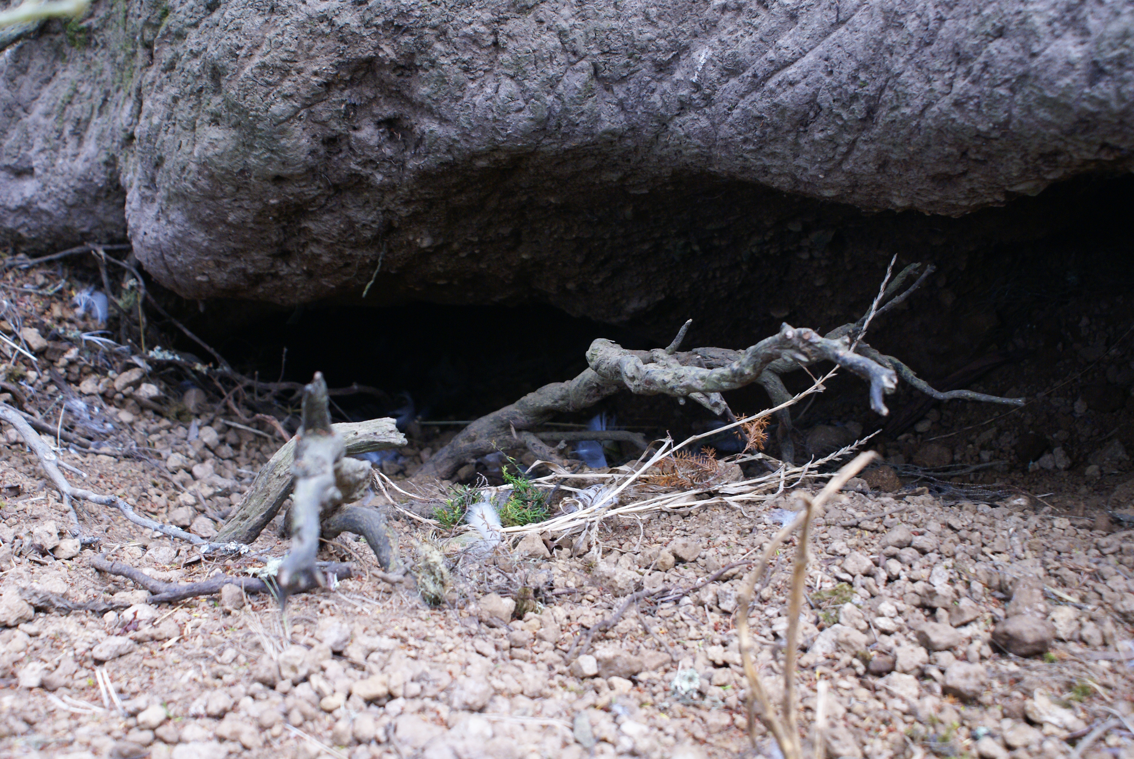 Morro de Castelo Branco, furna de Cagarro, Castelo Branco, concelho da Horta, ilha do Faial, Açores, Portugal